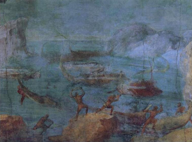 original of File:Odysseus bei den Laestrygonen.jpg taken from History of art: the Western tradition by H W Janson and Anthony F Janson ISBN-13: 978-0131828957